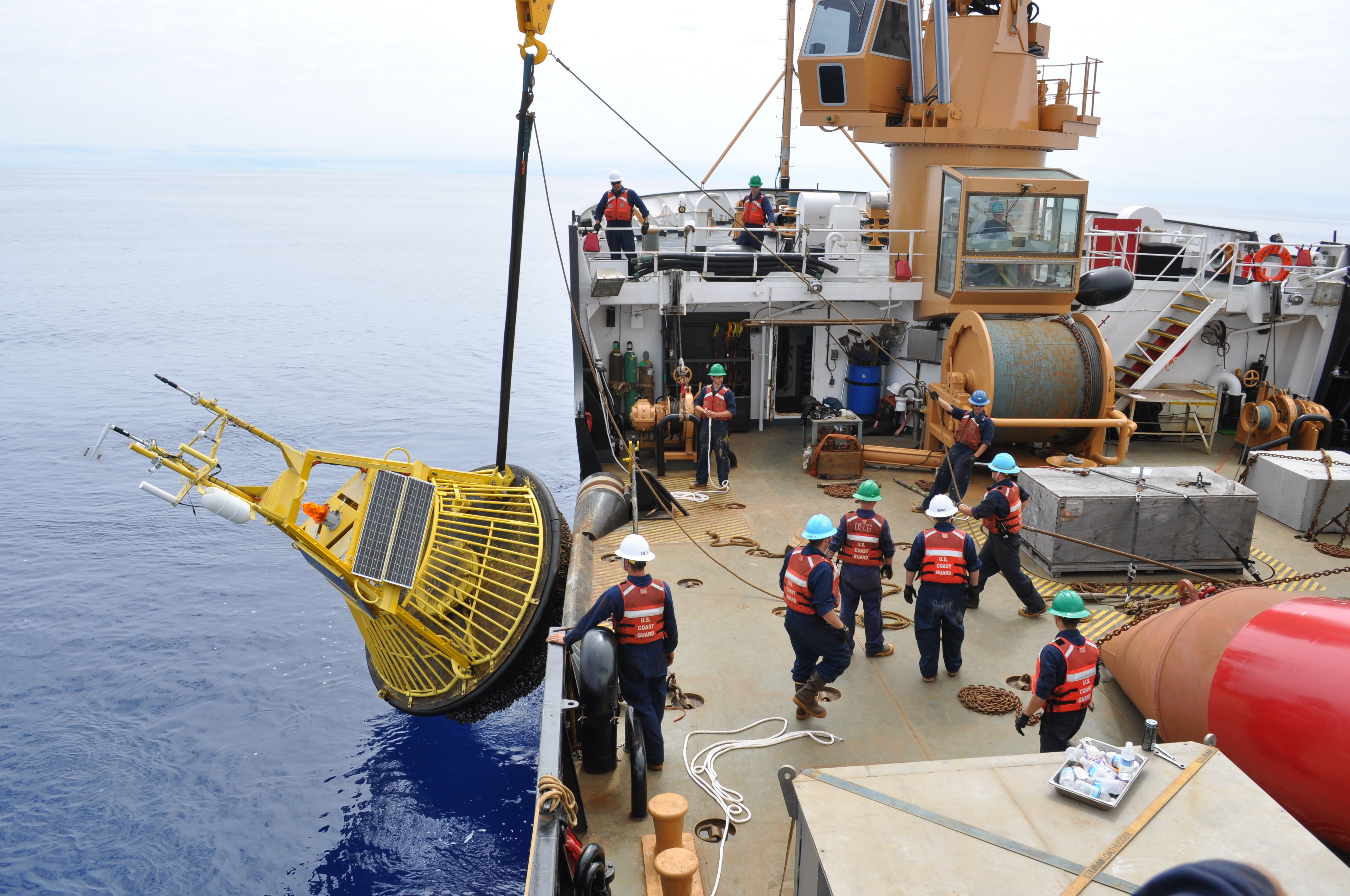 Pacific Ocean - The crew aboard Coast Guard Cutter Maple homeported in Sitka, Alaska, service NOAA buoys several hundred miles off the northern California coast August 26, 2010. The Maple crew worked with technicians from NOAA servicing these sensitive instruments in an effort to track and monitor changing ocean conditions. Coast Guard photo by Petty Officer 1st Class Brad Dawson.